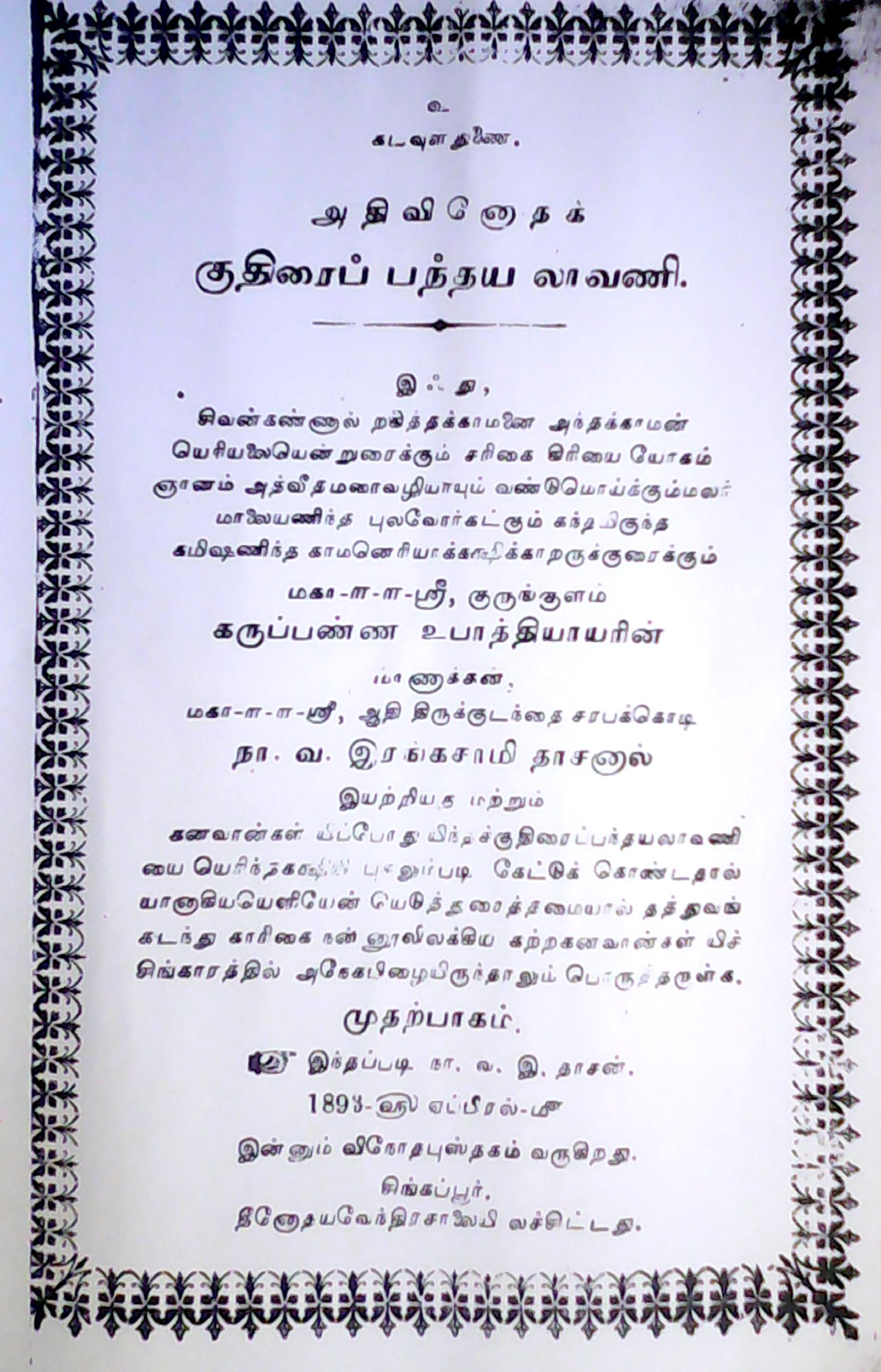 Front cover of the book அதிவினோதக் குதிரைப் பந்தய லாவணி. published in 1893